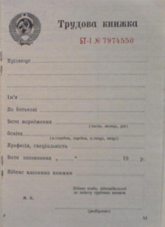 Employment Record Book («Trudovaya knizhka»). USSR, sample year 1974. Series "БТ" (special edition for Ukrainian Soviet Socialist Republic). Right half (pages 41 through 80) starts with a second title page to be filled in Ukrainian.